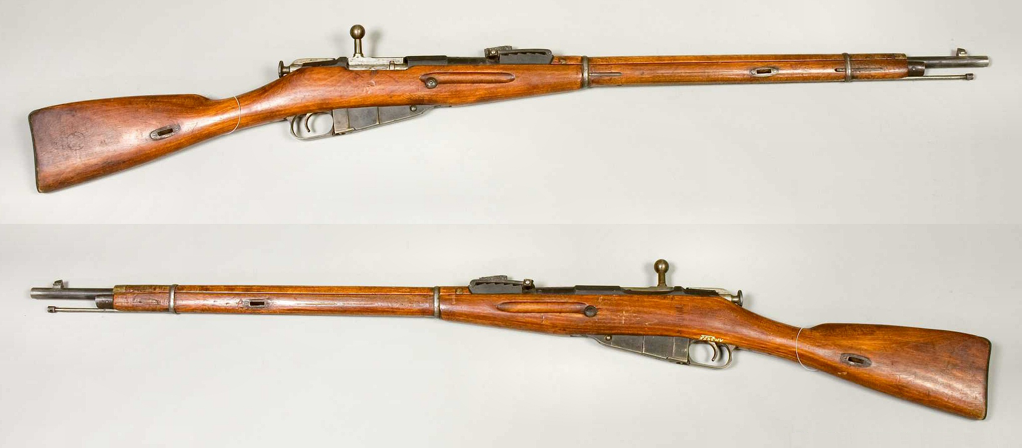 Mosin-Nagant Dragoon Rifle Model 1891. Caliber 7.62x54mmR. From the collections of Armémuseum (Swedish Army Museum), Stockholm, Sweden.